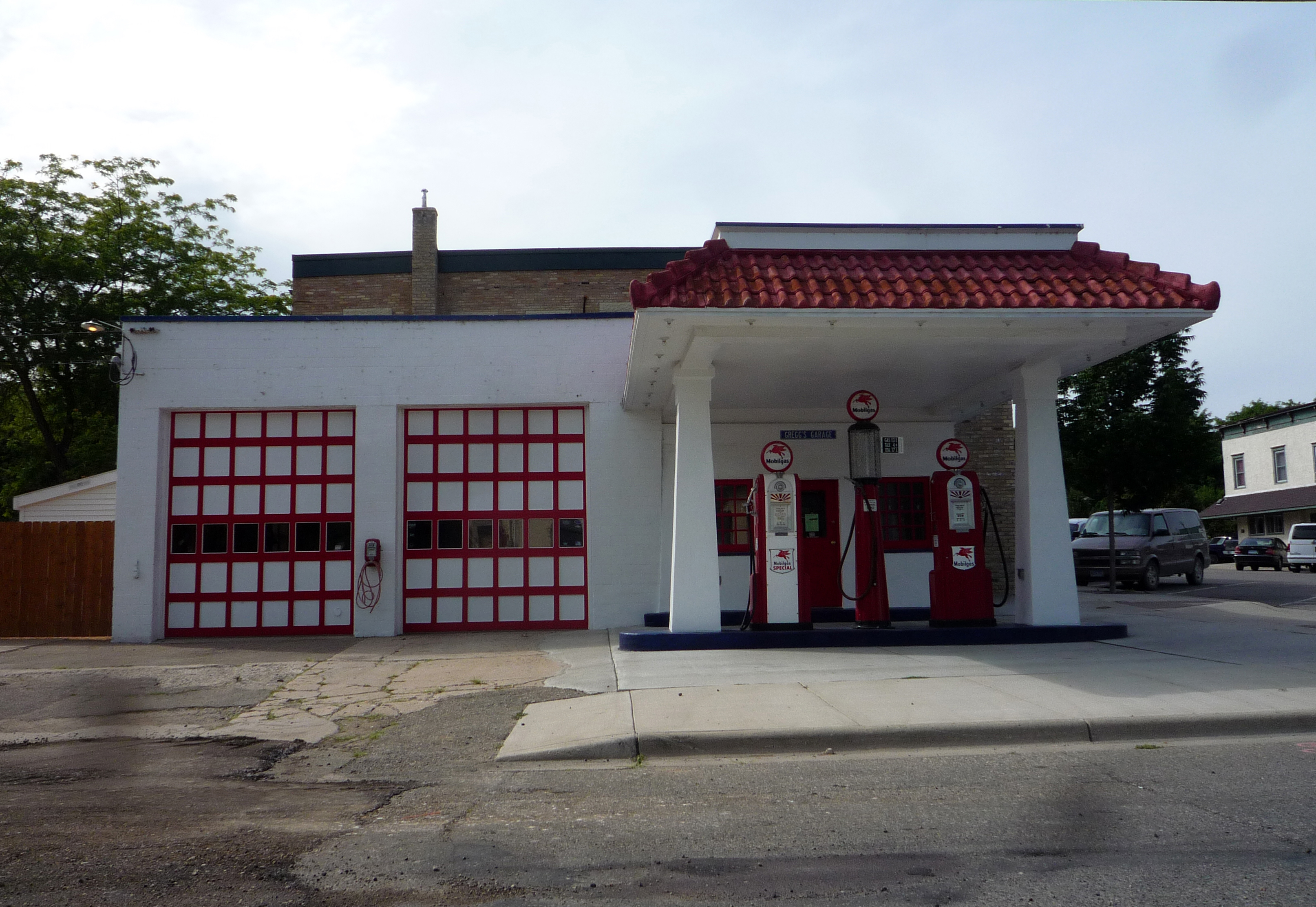 Minnesota Valley Oil Company Gas Station (1925), part of the Carver Historic District on the NRHP, Carver, Minnesota, USA.